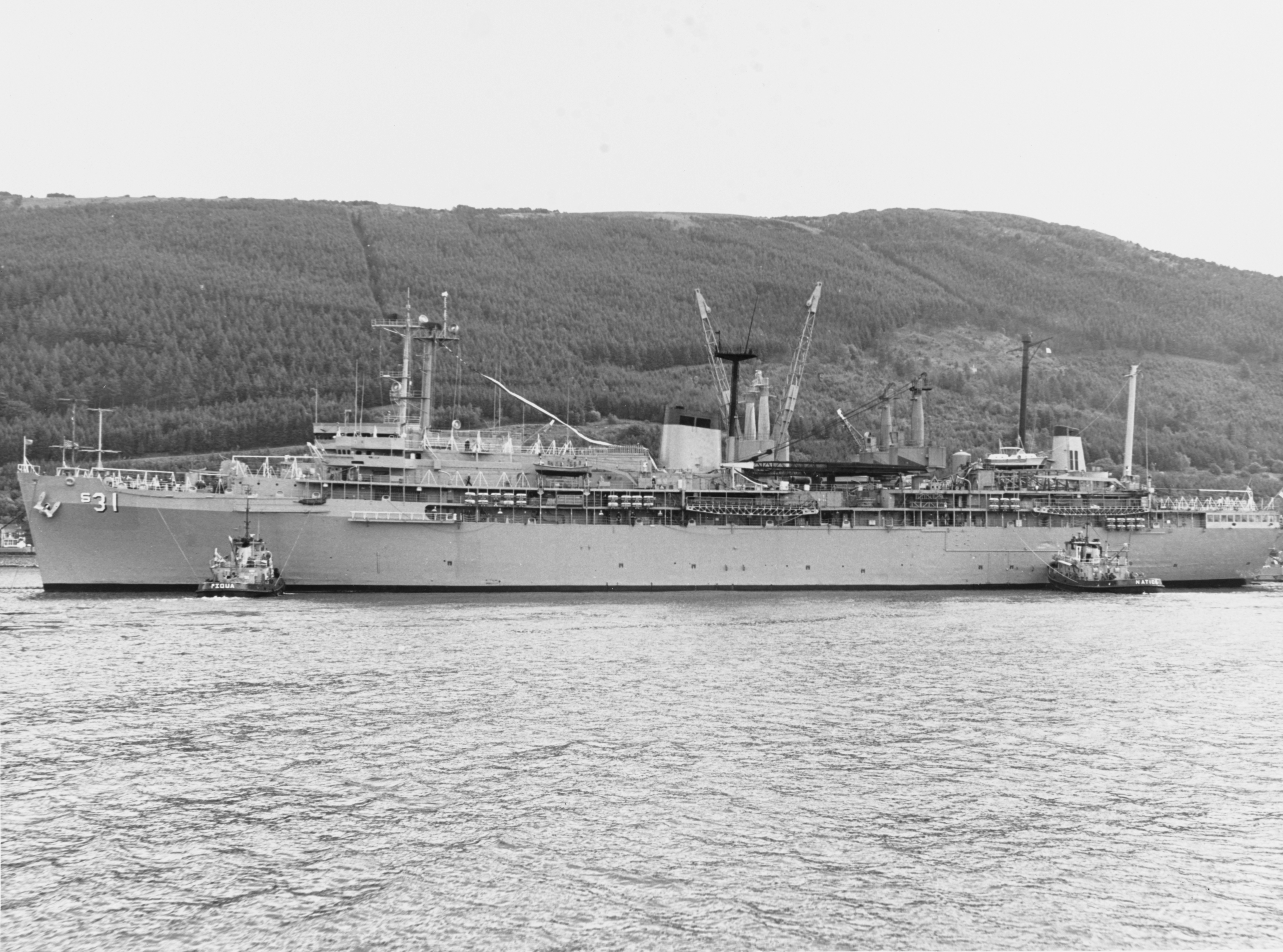 The U.S. Navy submarine tender USS Hunley (AS-31) at Holy Loch, Scotland (UK), with harbour tugs Piqua (YTB-793), at left, and Natick (YTB-760) assisting. Another Simon Lake-class submarine tender is on her opposite side, with masts, cranes and stack visible. The photograph was received in June 1992.